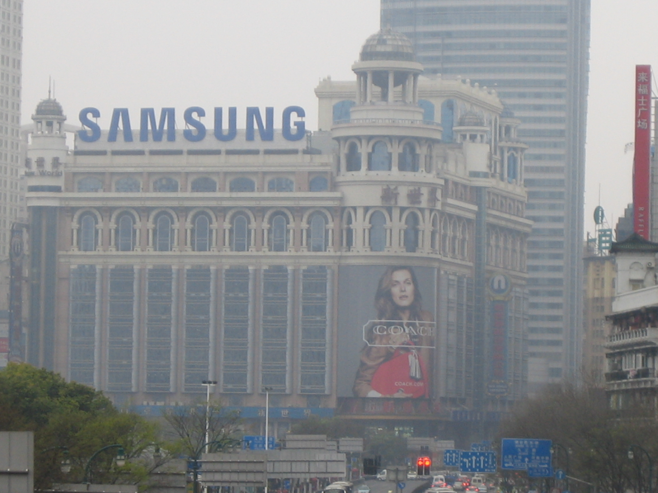 New World City in Shanghai